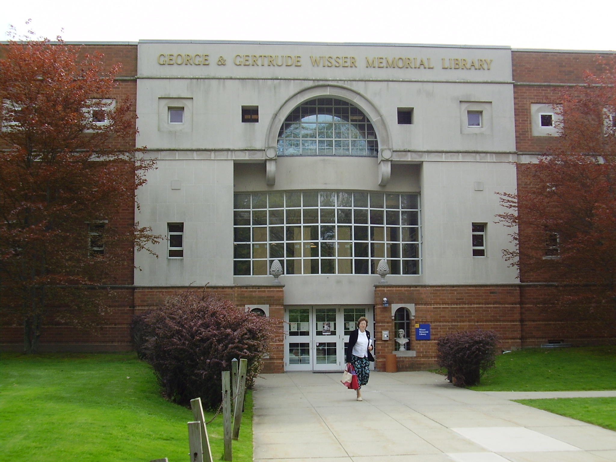 Wisser Memorial Library, Old Westbury. This is NYIT's largest library. (Photo was taken in May 2005 by Leginius_The_Angry), herewith licensed under GFDL.